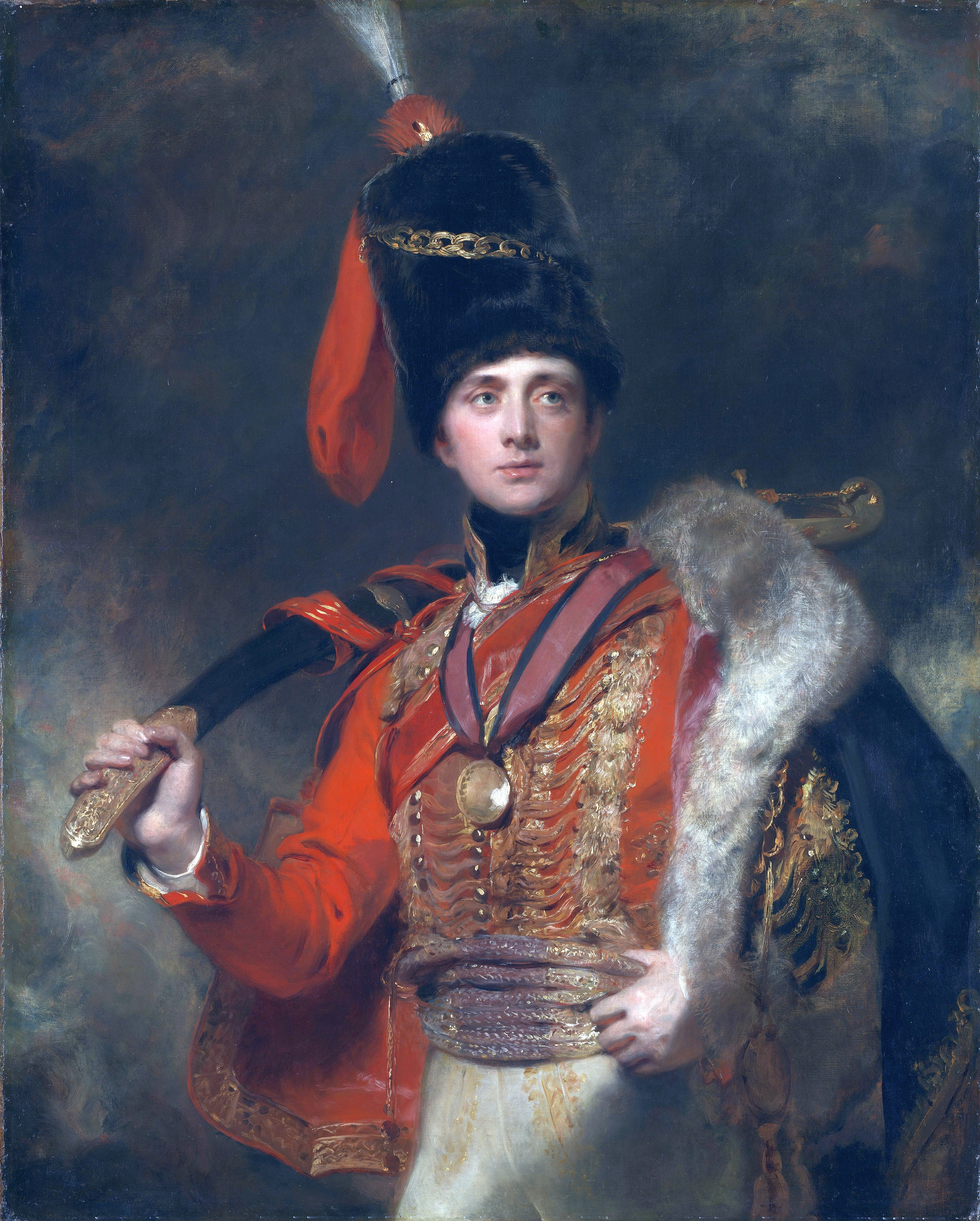 Lieutenant General the Hon. Charles William (Vane-)Stewart (later 3rd Marquess of Londonderry) in hussar uniform, wearing the Army Gold Medal which he was awarded in 1810 for the Battle of Talavera. There are two versions of this portrait, the "Londonderry version" (this painting) and the "Camden version" (now in the NPG). The Londonderry version shows less of the figure, while the Camden version is inscribed "Thos. Lawrence Pinx. 1812" on the edge of the cloak and has the star and ribbon of the Bath which Stewart received in 1813 (added later, with underpainting now showing through the ribbon). There is some confusion in the literature about which version of the painting is the one being referred to (especially since Stewart sat for Lawrence for different portraits painted in 1811 and 1818). It was probably the Camden version which was exhibited at the RA in 1813, the Londonderry version being painted afterwards.